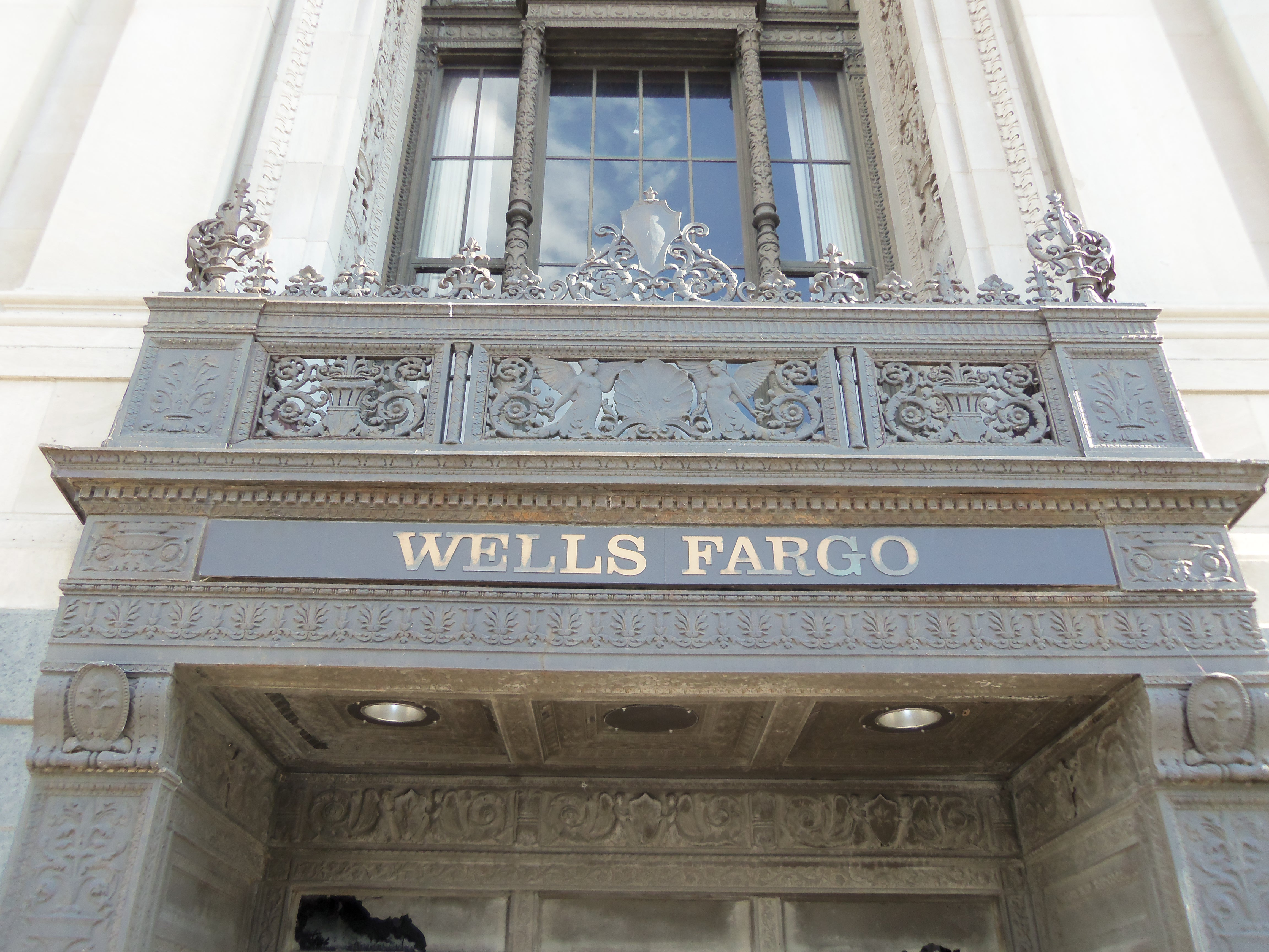 Entrance detail on the Davenport Bank & Trust building, formerly Wells Fargo, in Davenport, Iowa.